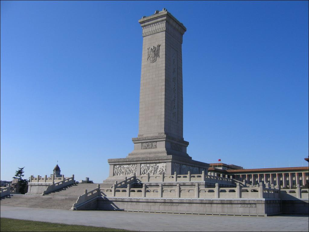 The Monument to the People's Heroes in Beijing